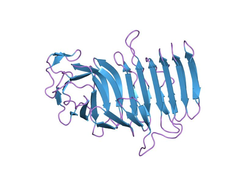 Cartoon representation of the molecular structure of protein registered with 1rwr code.